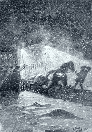 An illustration from Jules Verne's novel "César Cascabel" (1890) drawn by George Roux.